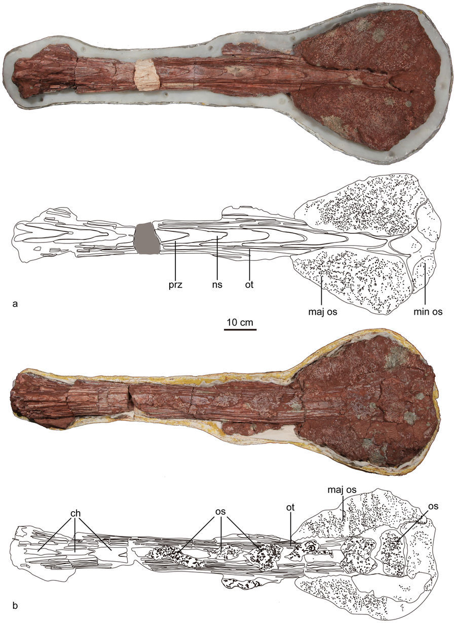 The tail club Jinyunpelta sinensis paratype ZMNH M8963 in dorsal (a) and ventral (b) views. Abbreviations: ch, chevron; maj os, major osteoderm of the tail club knob; min os, minor osteoderm of the tail club knob; ns, neural spine; os, osteoderm; ot, ossified tendon; prz, prezygapophyses.